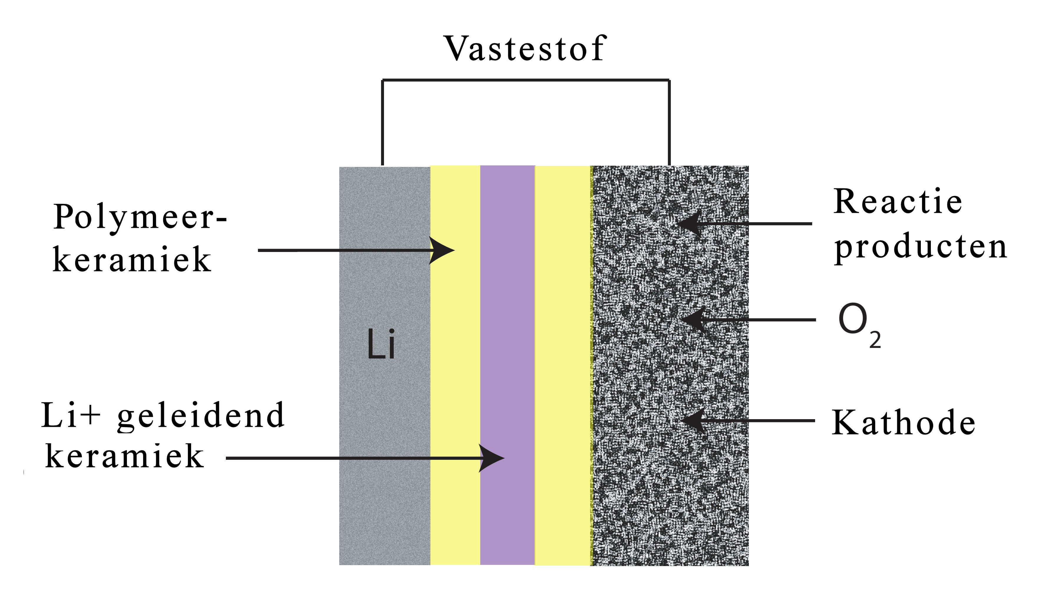 Schematic of a fully solid-state type Lithium-air battery design, Dutch txt